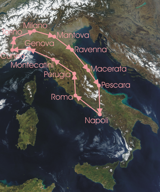 Map of Italy highlighting the stages of 1931 Giro d'Italia